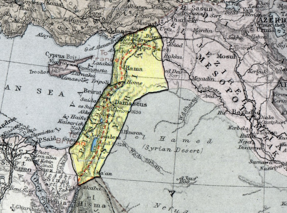 Kingdom of Syria (1920)